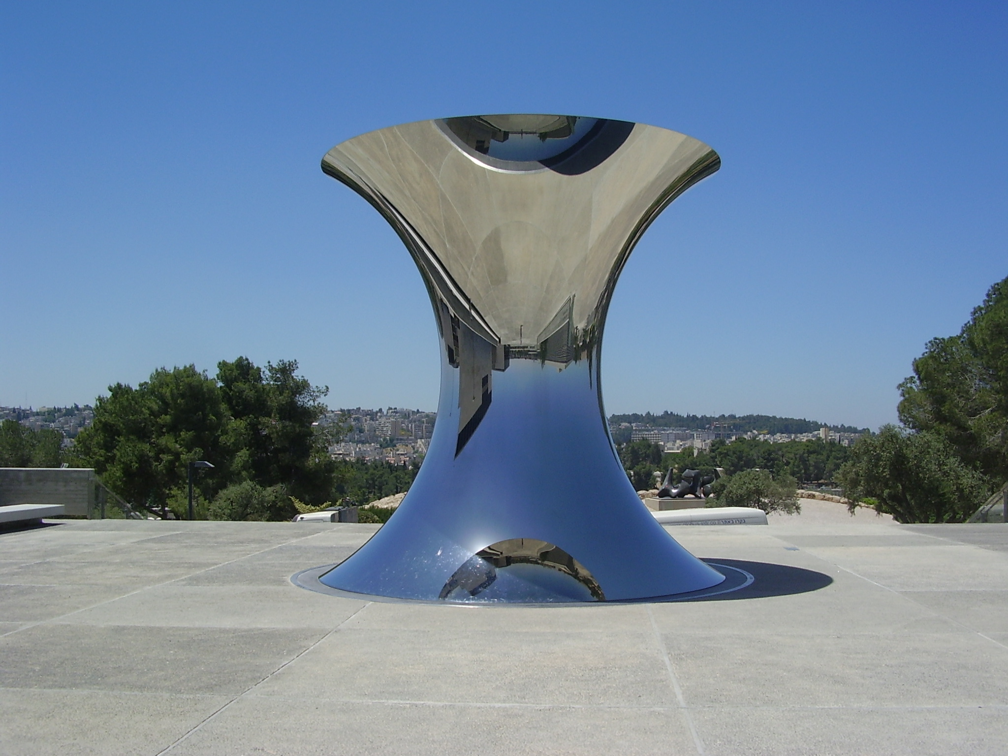 turning the world upside down by anish kapoor (2010) in israel museum, jerusalem